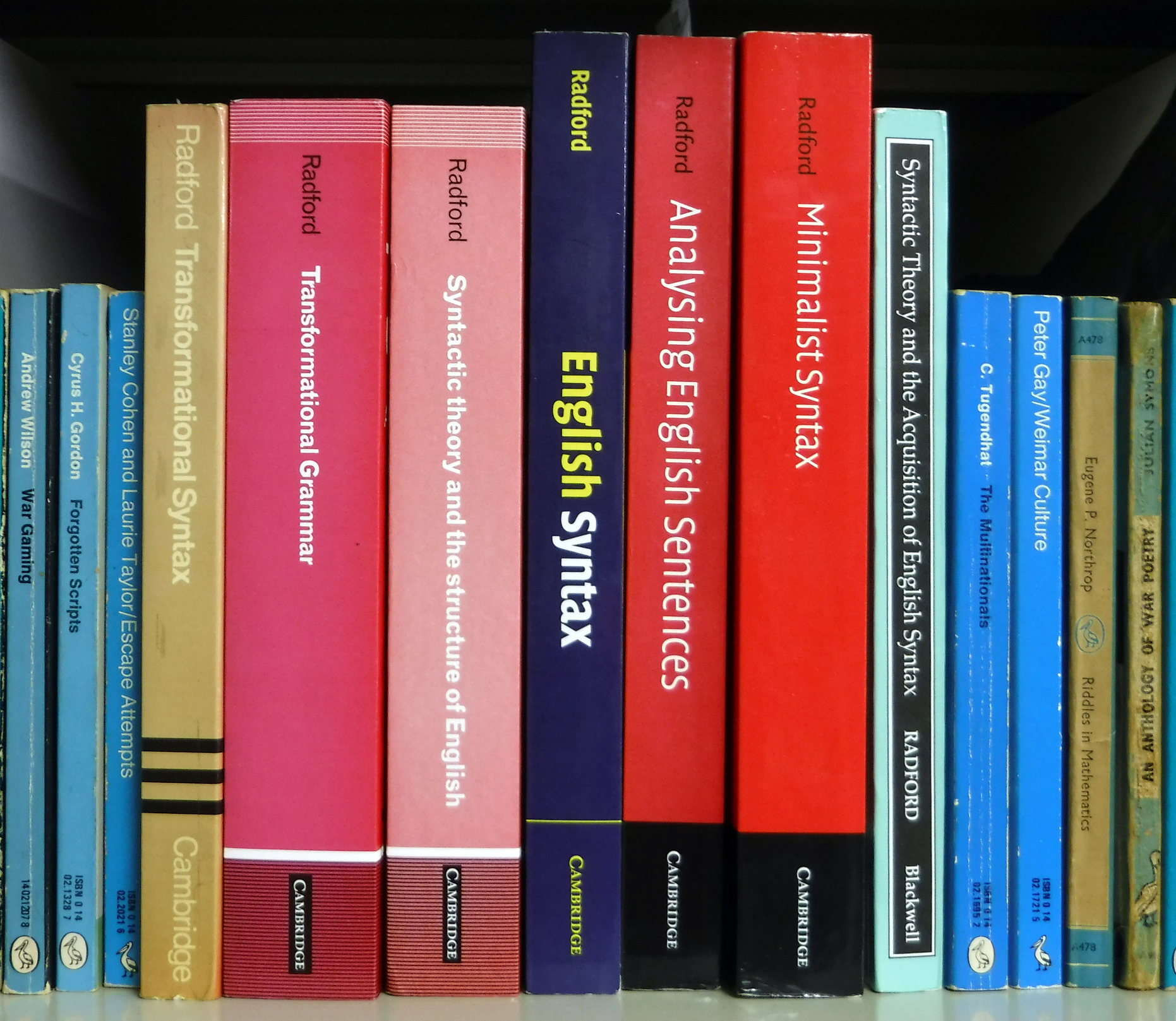 Some books by the linguist Andrew Radford (flanked by irrelevant Pelicans). The first and third left have faded considerably.